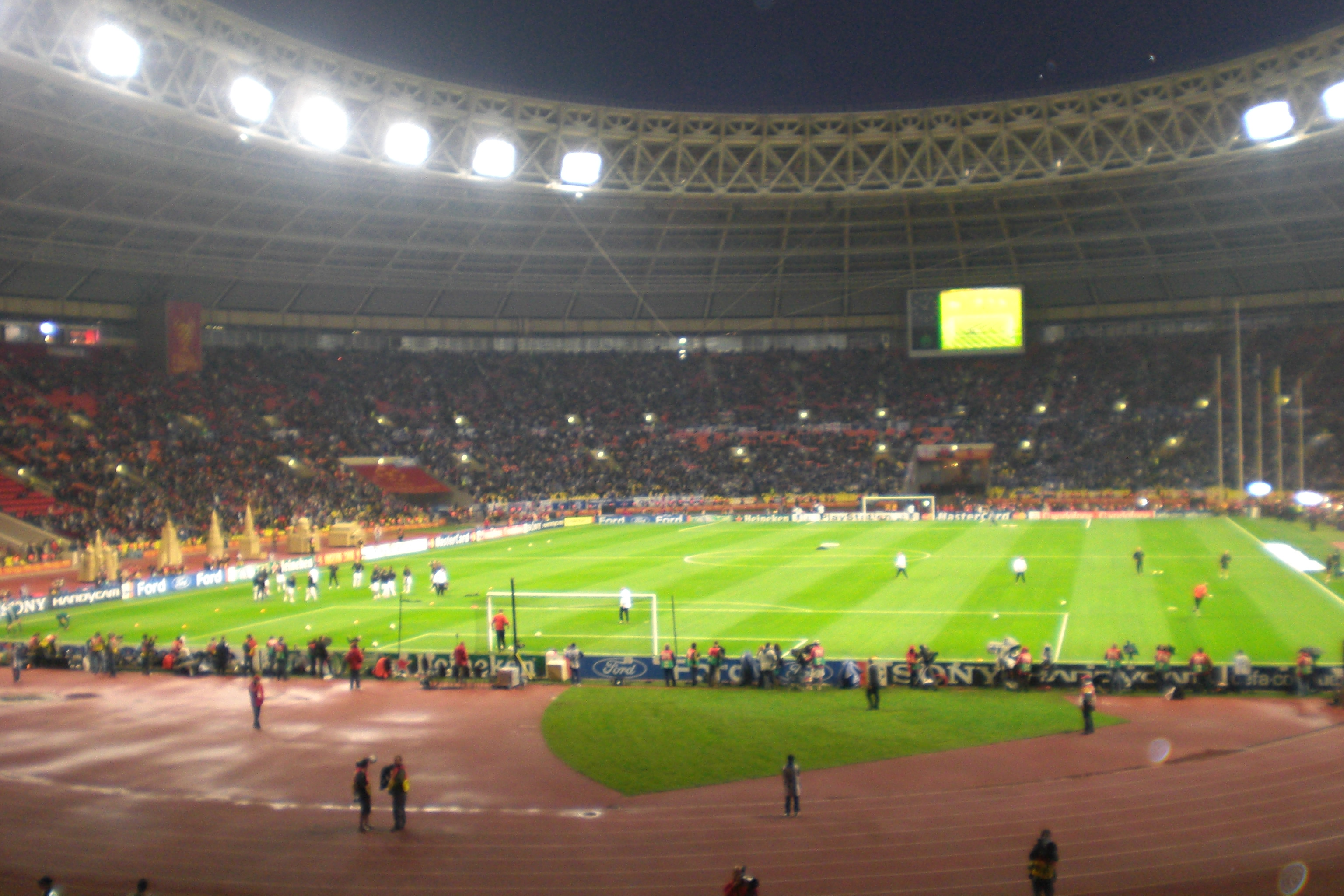 Champions League final at Luzjniki Stadion, Moscow